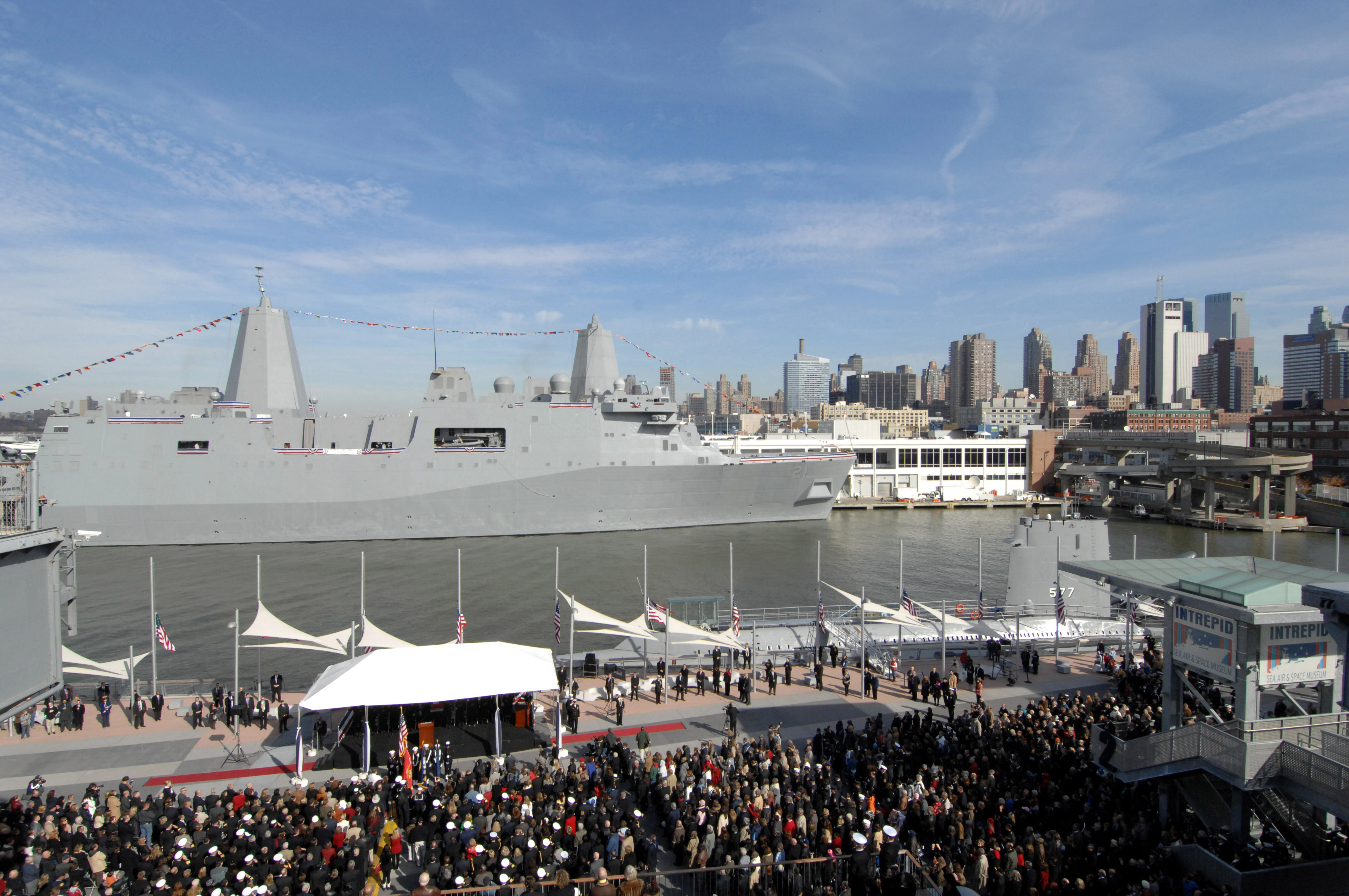 The amphibious transport dock ship USS New York (LPD 21) is commissioned in New York.